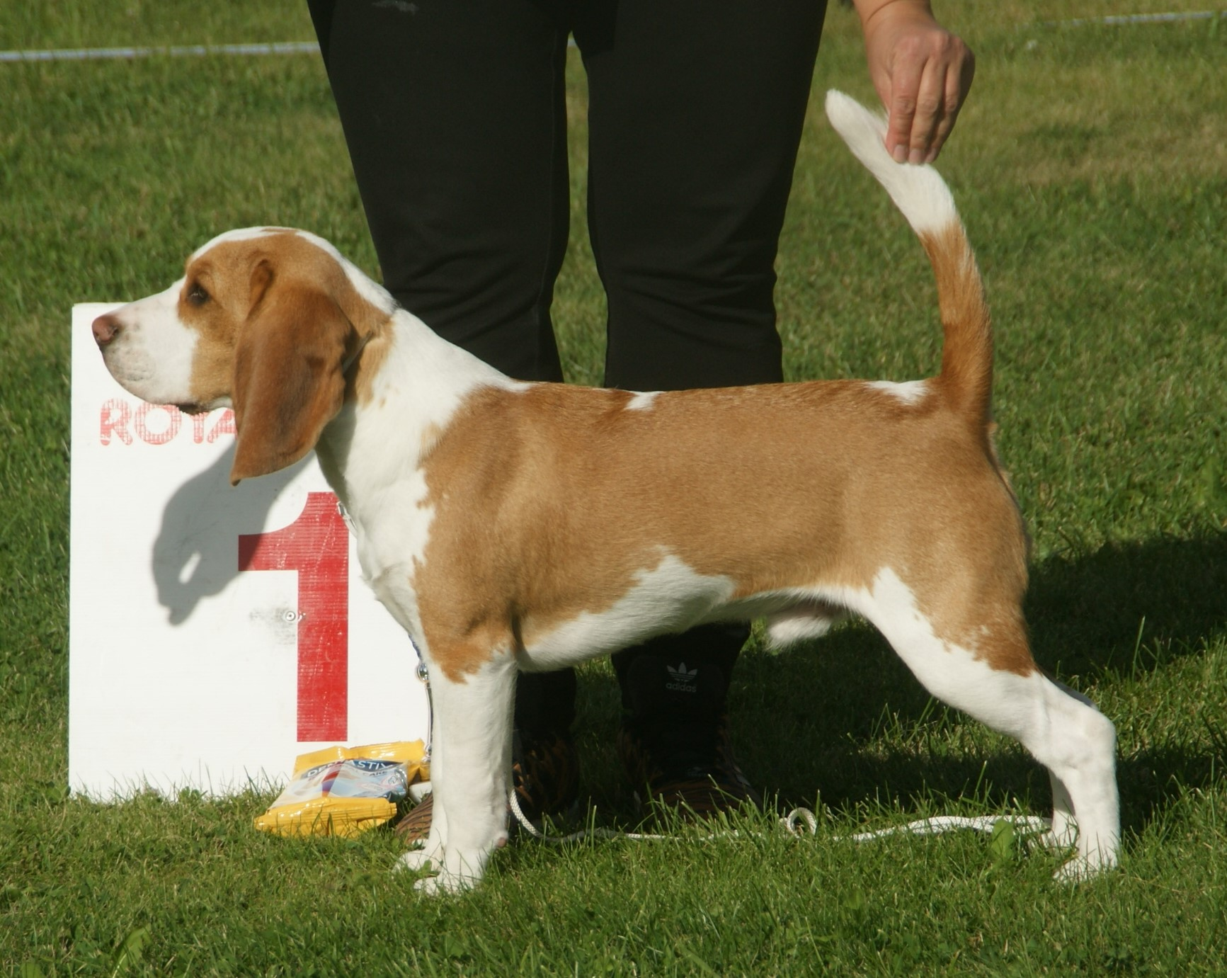 Beagle, red & white, male.